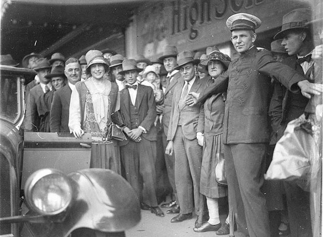 Theatre commissionaire holds back crowd from the first "Miss Australia", Beryl Mills of Western Australia, outside Sydney’s Haymarket Theatre